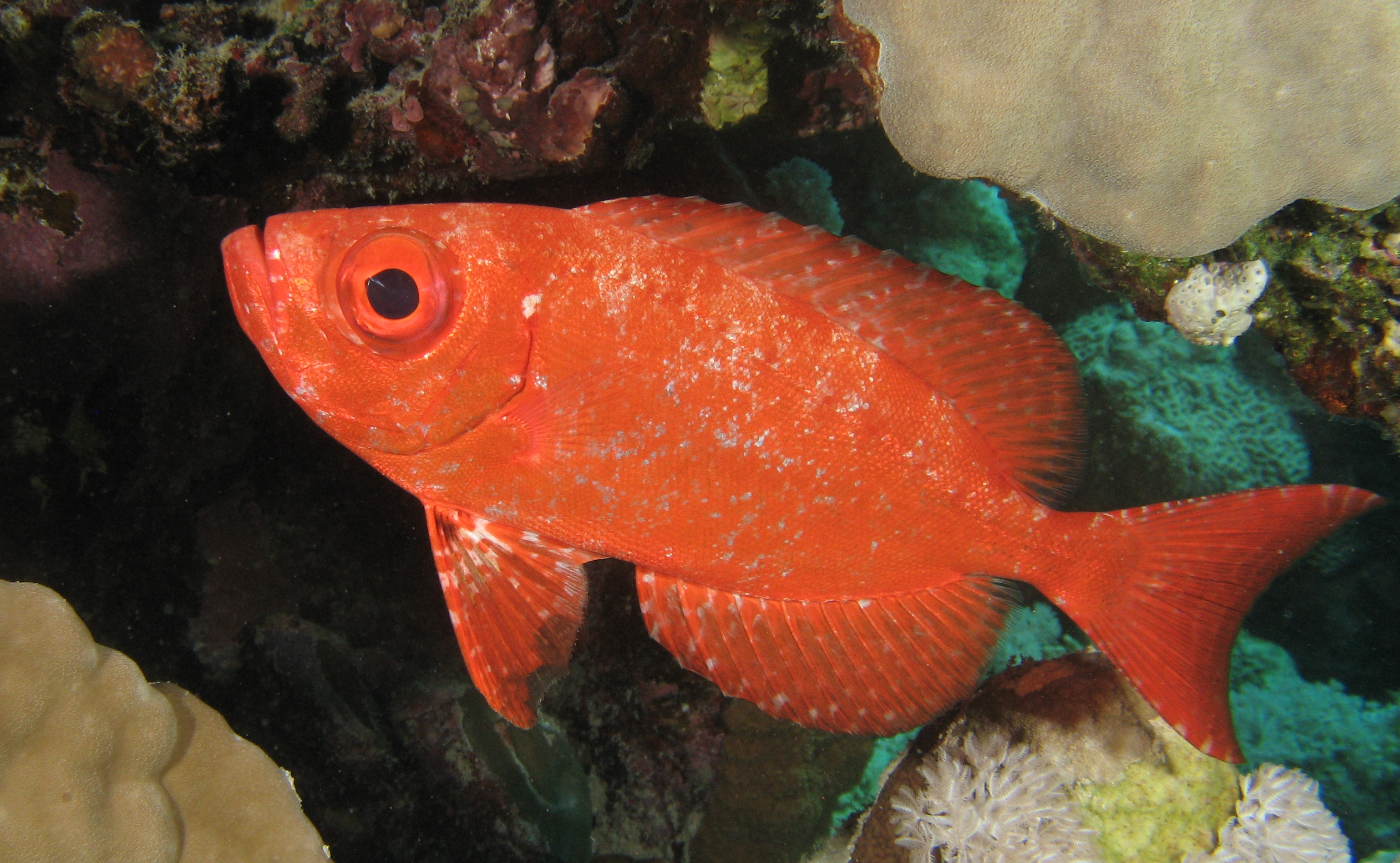 Priacanthus hamrur near Marsa Alam, Egypt.